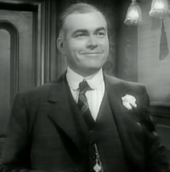 James Flavin in The Fabulous Dorseys (cropped screenshot)